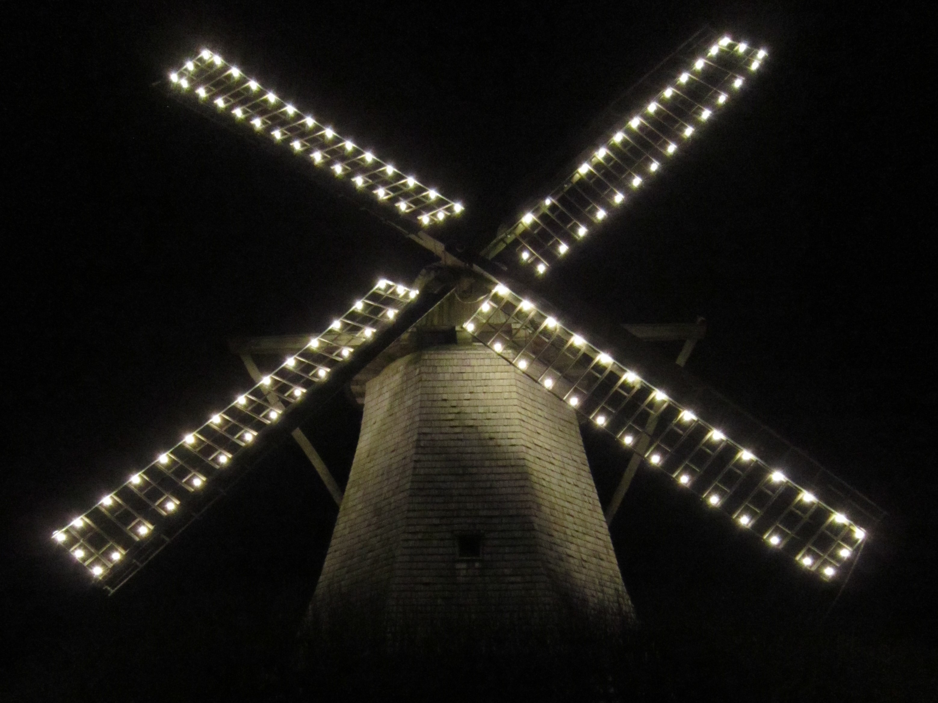 Illuminiated windmill in Destel (Stemwede, Kreis Minden-Lübbecke)